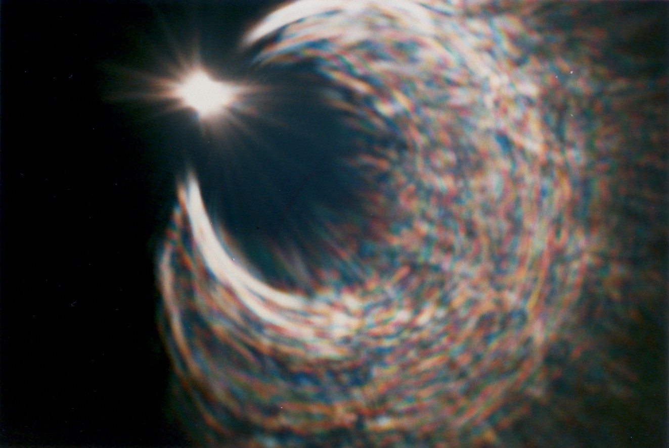 Psychodelic light effect